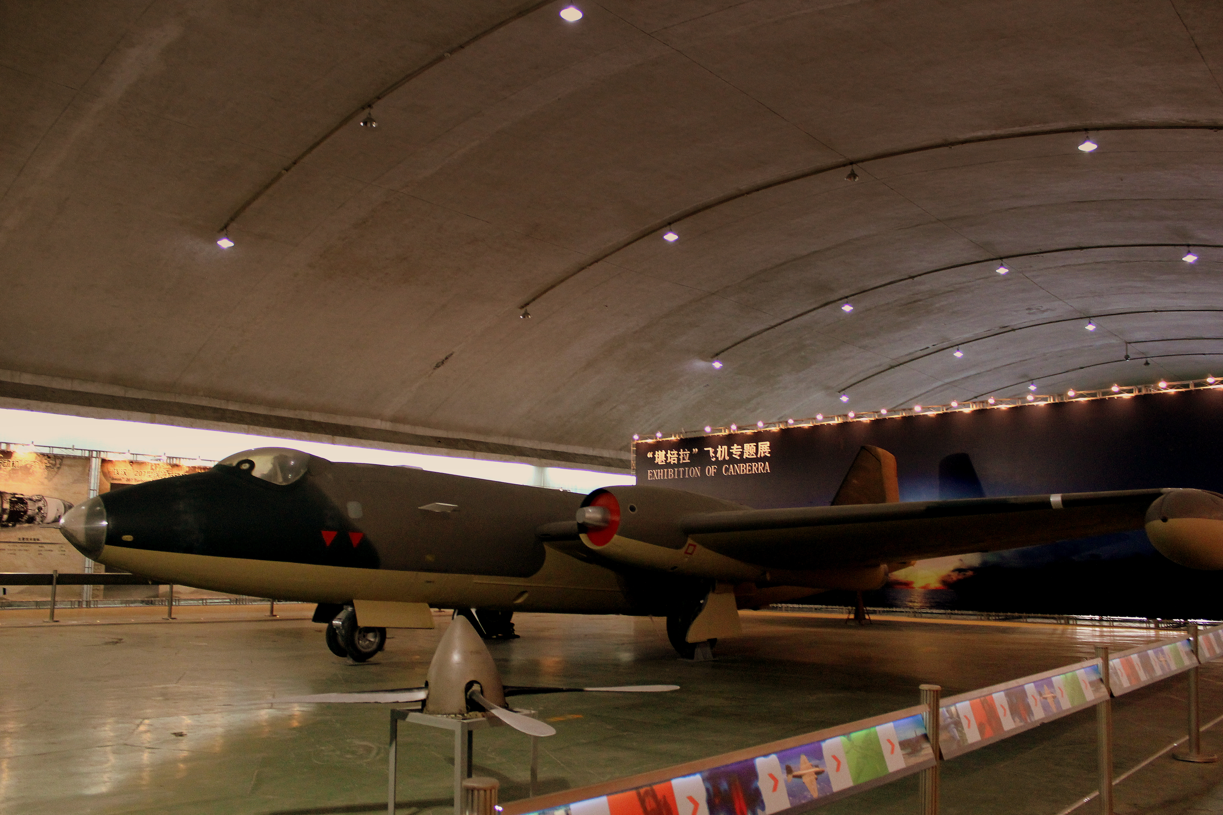 DONATED BY ROBERT MUGABE TO CHINA - Not a PR.9 though.